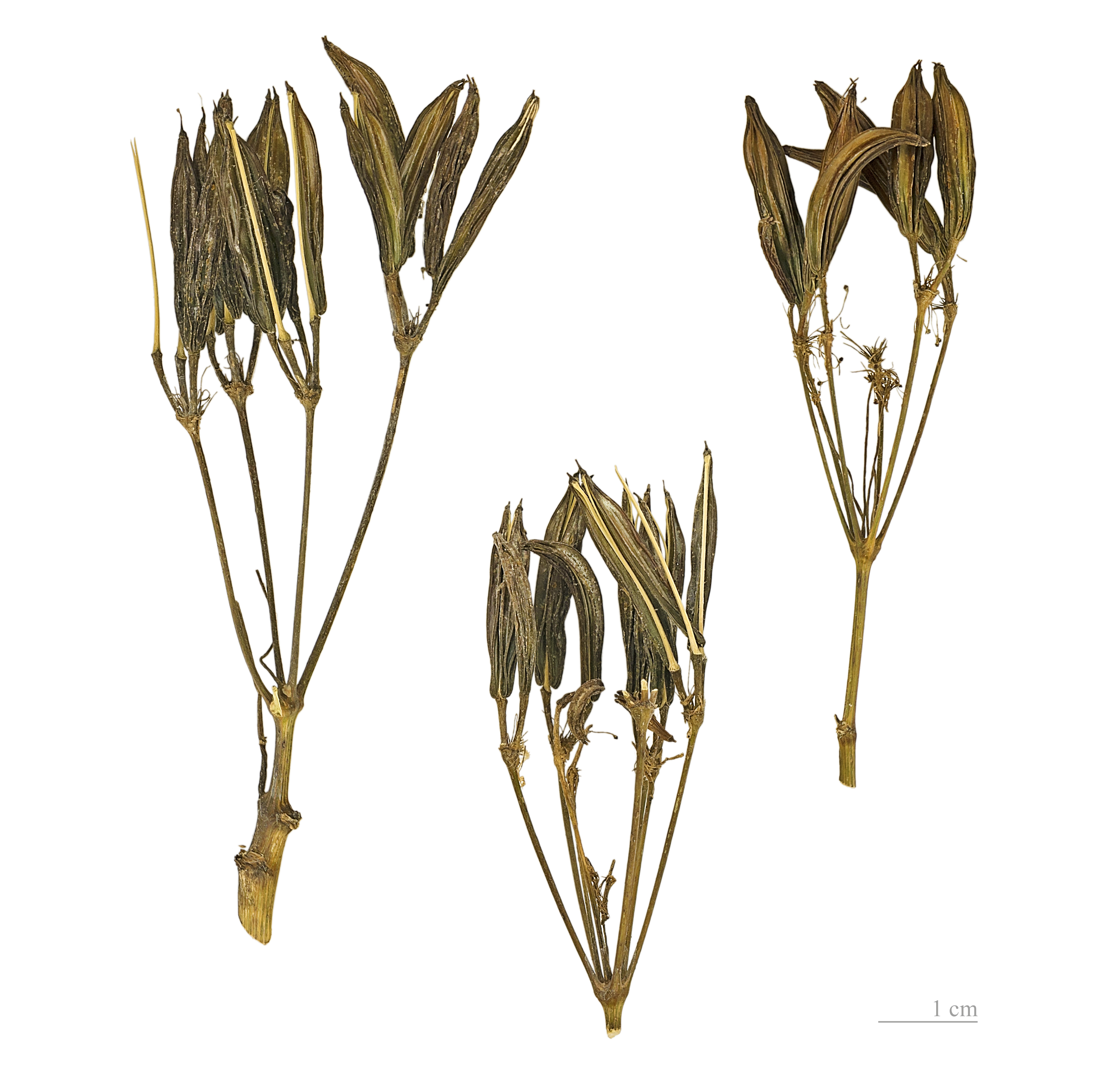 Cicely, Seeds.